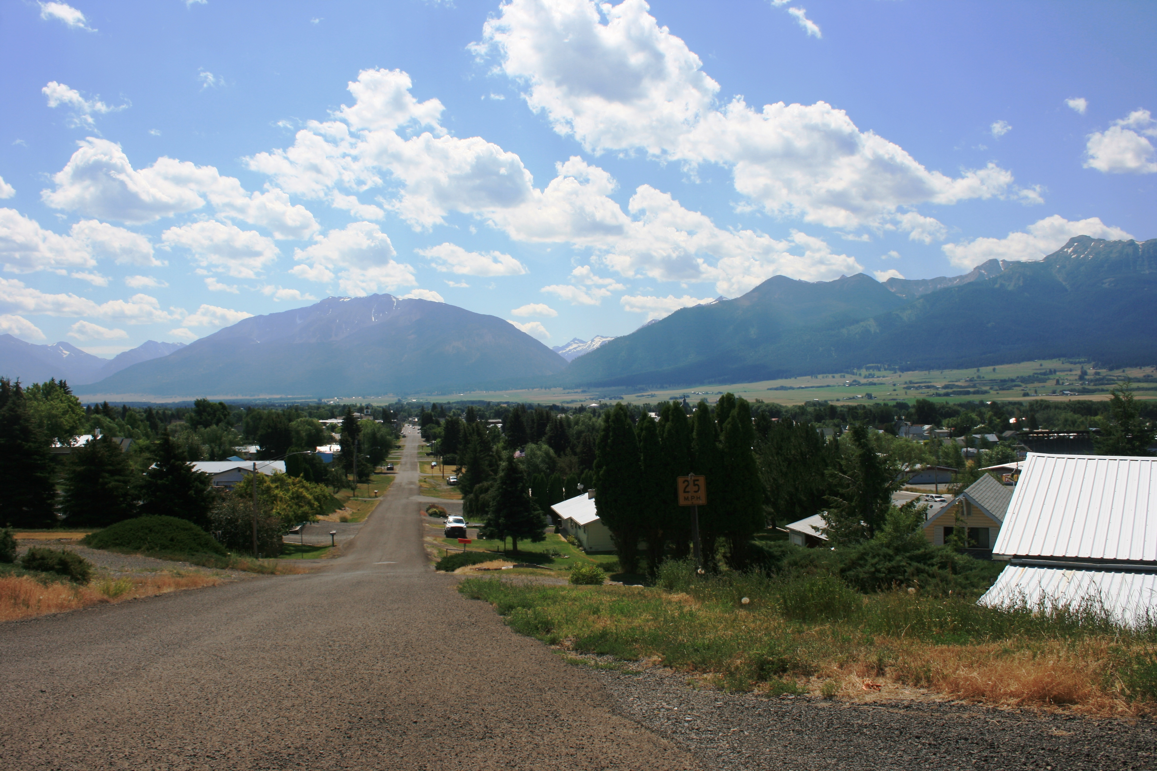 For use in the w:'Enterprise, Oregon article. Enterprise is a city in and the county seat of Wallowa County, Oregon, United States. The population was 1,895 at the 2000 census, with an estimated population of 1,940 in 2007. Williamborg (talk) 04:24, 9 August 2011 (UTC)